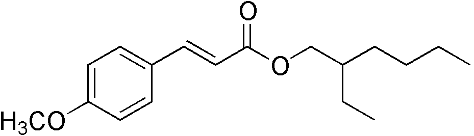 Chemical structure of created with ChemDraw. Original page is/was Image:Octyl methoxycinnamate.png